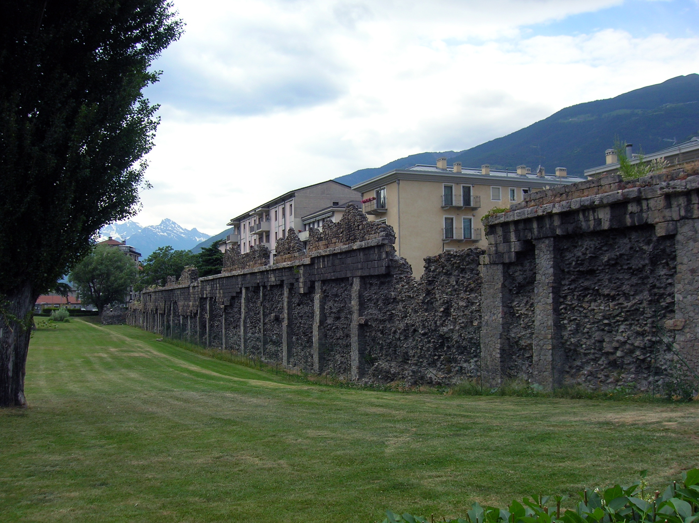 Ancient Roman walls in Aosta, Aosta Valley, Italy